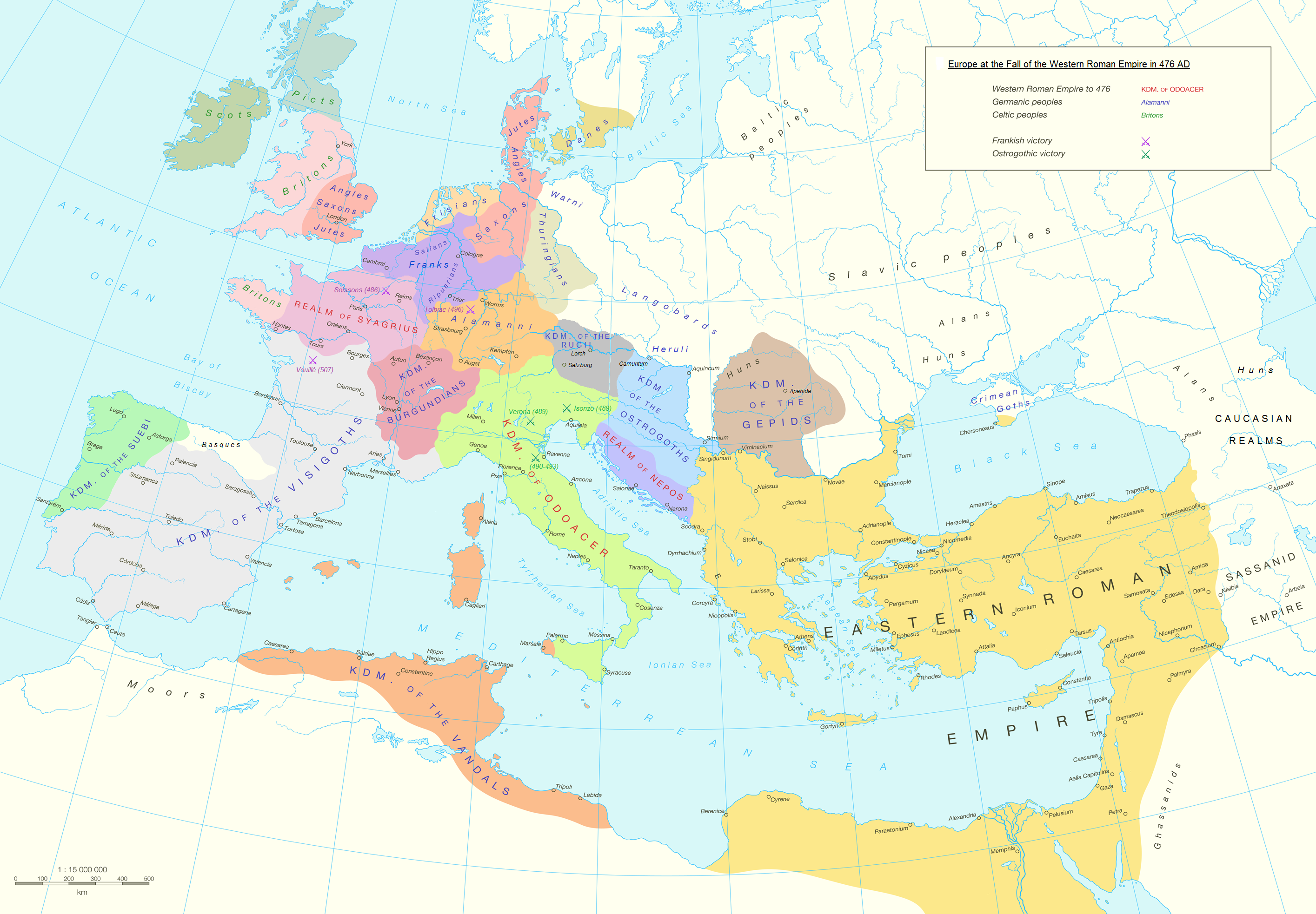 Political division in Europe, North Africa and Near East after the end of the Western Roman Empire in 476 AD.